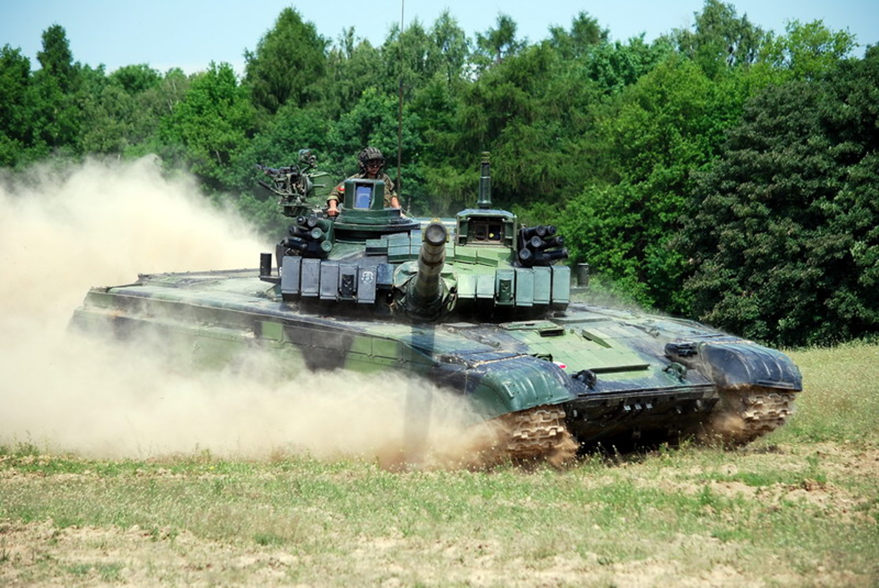 Silesian museum - Darkovičky 3